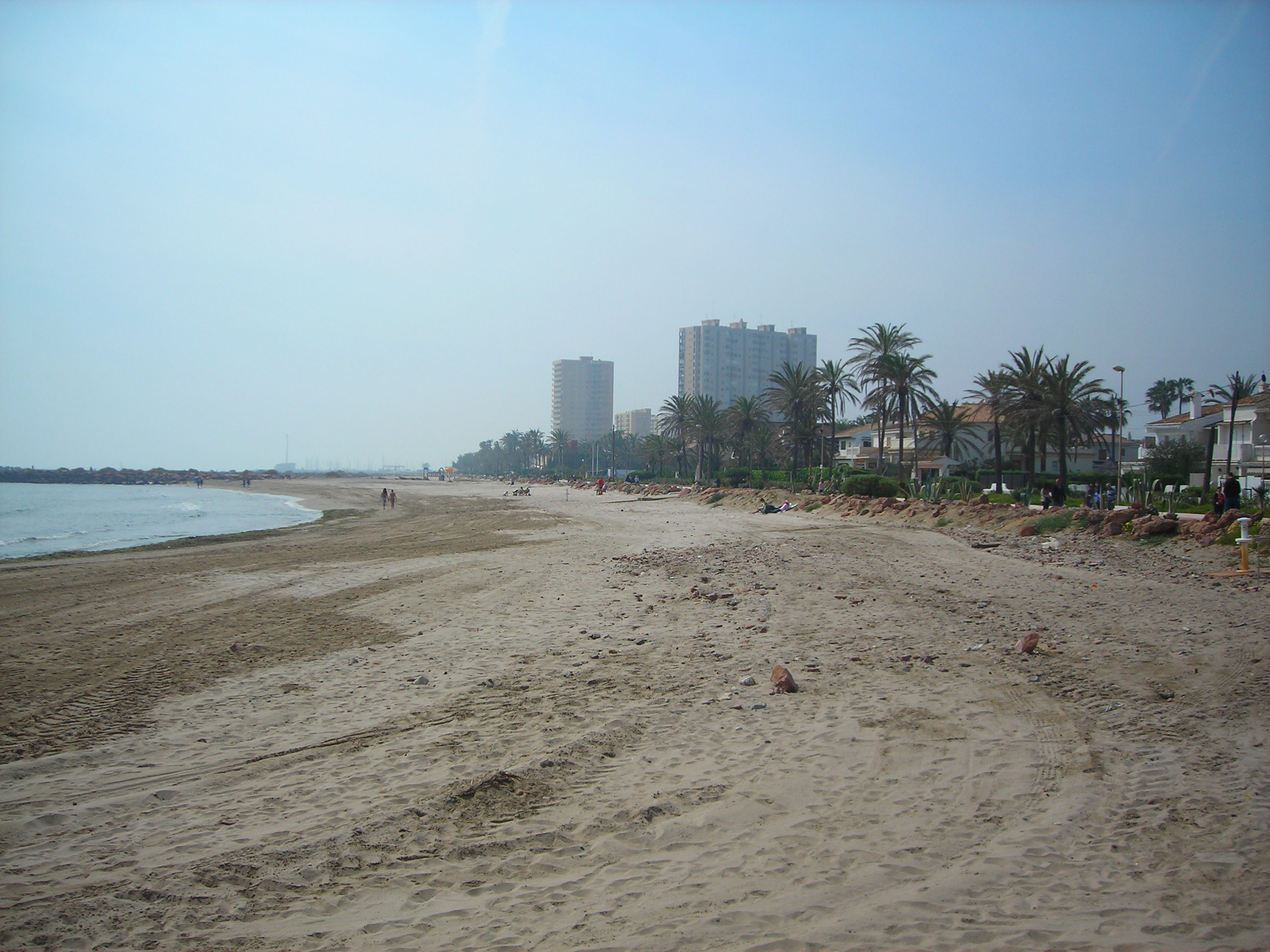 The beach at El Puig, Valencia